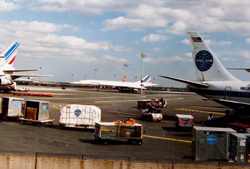 An Air France Concorde SST on the tarmac at John F. Kennedy International Airport, ca.1987.